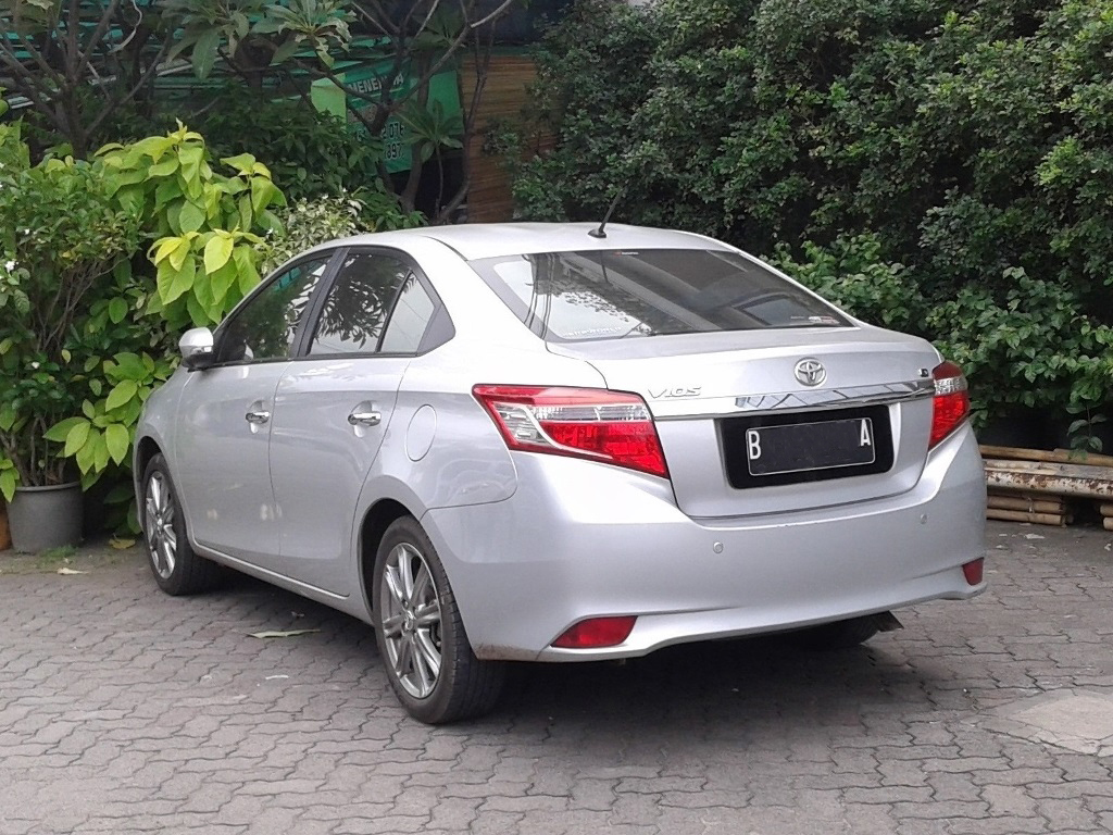 2014 Toyota Vios 1.5 G (NCP150), photographed in Jakarta, Indonesia.